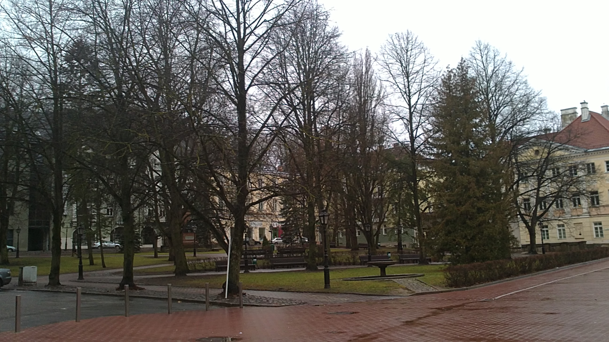 Barclay Square in Tartu, Estonia, in 2011